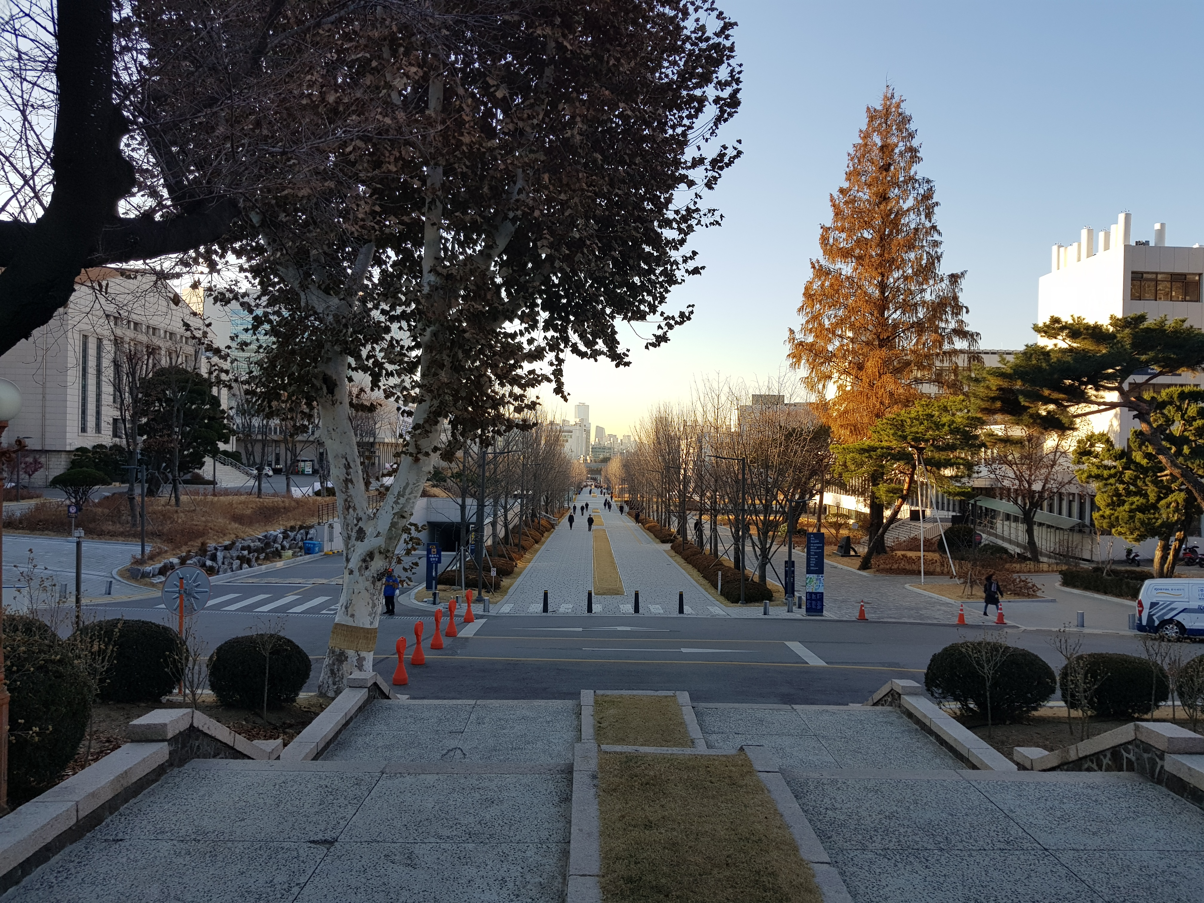 Baekyangro, the main road of Yonsei University